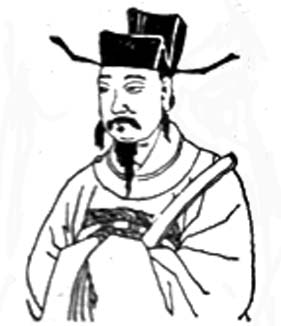 Portrait sketch of Shen Kuo